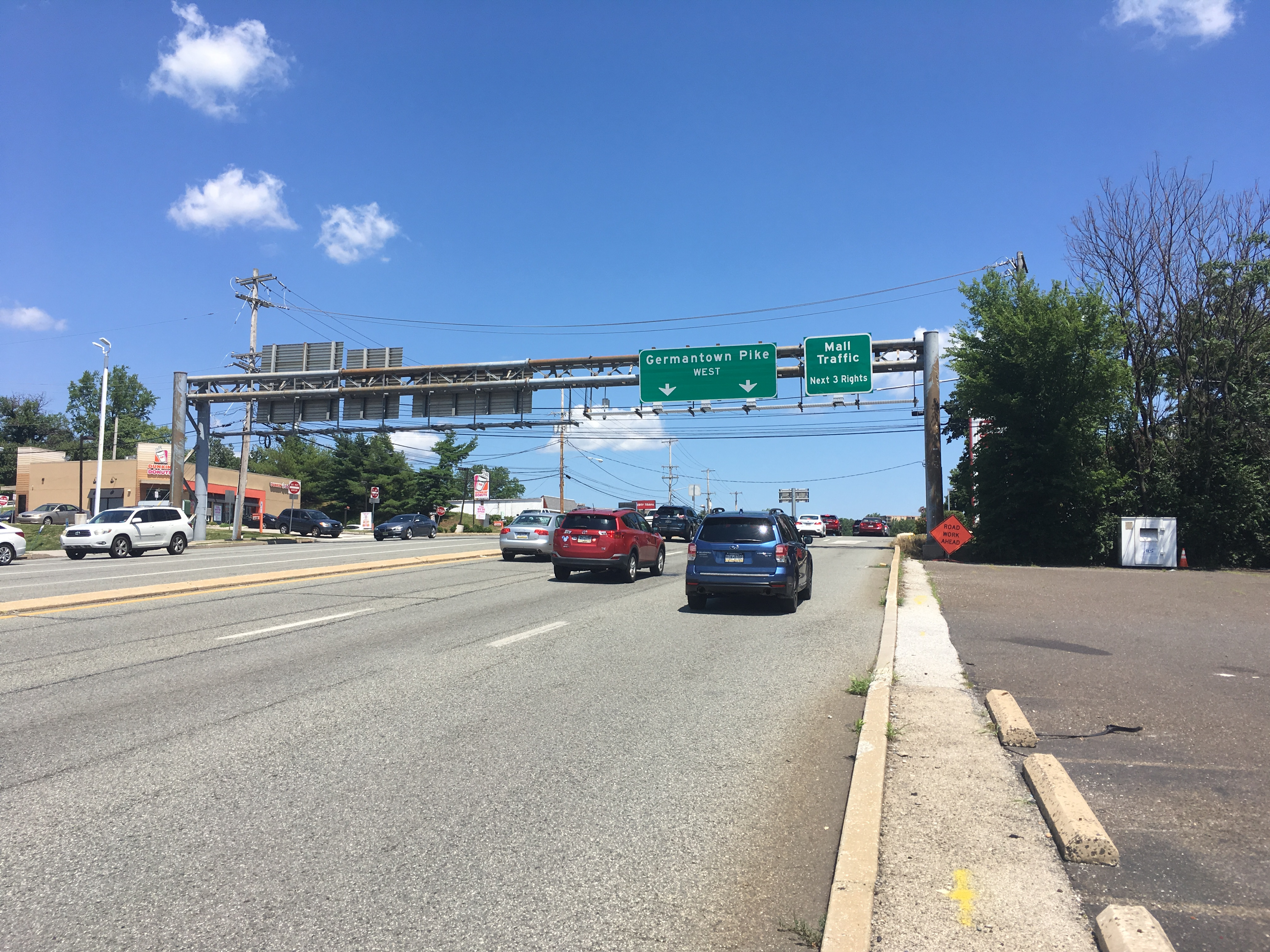 Westbound Germantown Pike past the intersection with Plymouth Road in Plymouth Meeting, Pennsylvania.